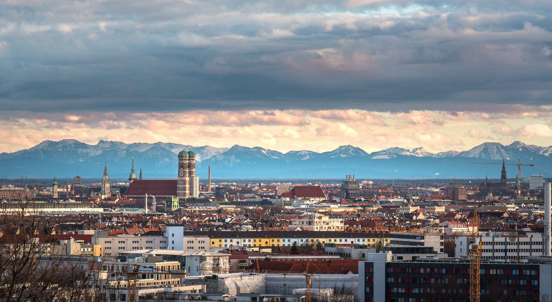 Munich, Olympia Mountain, Olympic Stadium, View, SunsetMunich Olympia Mountain Olympic Stadium View Sunset